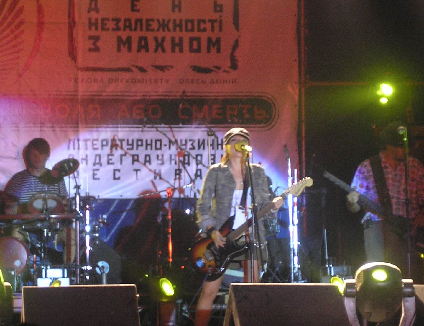 Qarpa band on festival in Huliaipole, 24 August 2007.